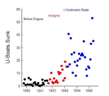 Plot of Uboats sunk per month in Atlantic in WW2